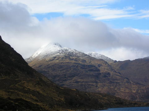 Ladhar Bheinn in Knoydat, in the Scottish Highlands.